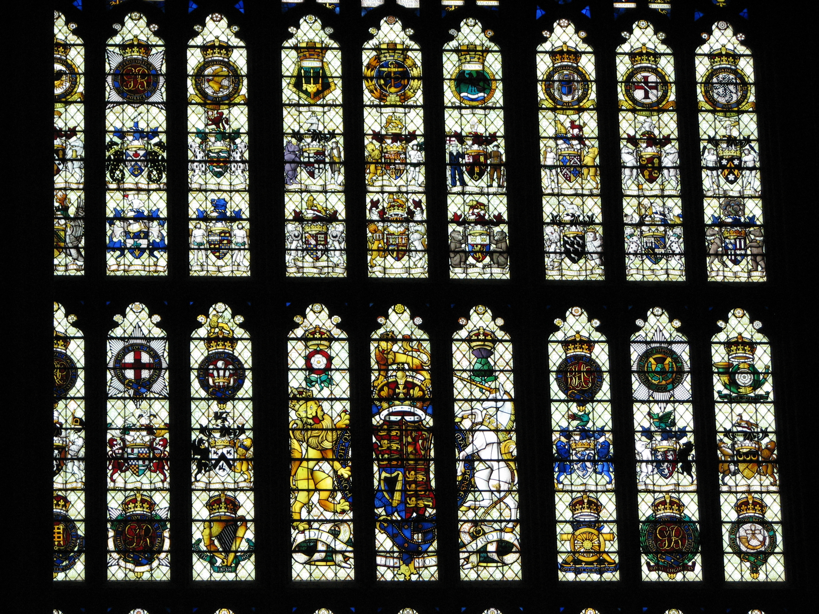 London - September 2008